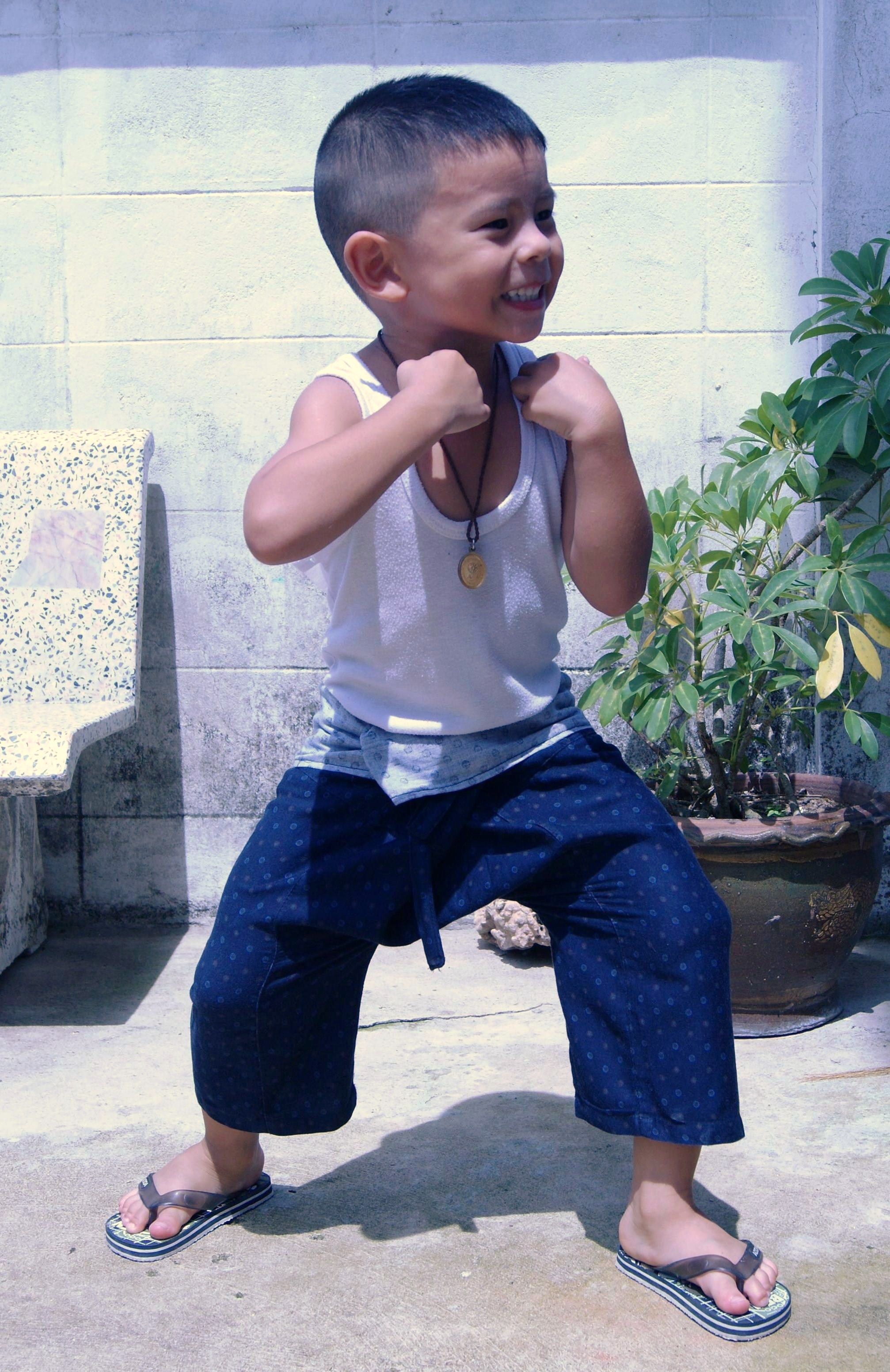 Childrens Thai wrap fisherman pants